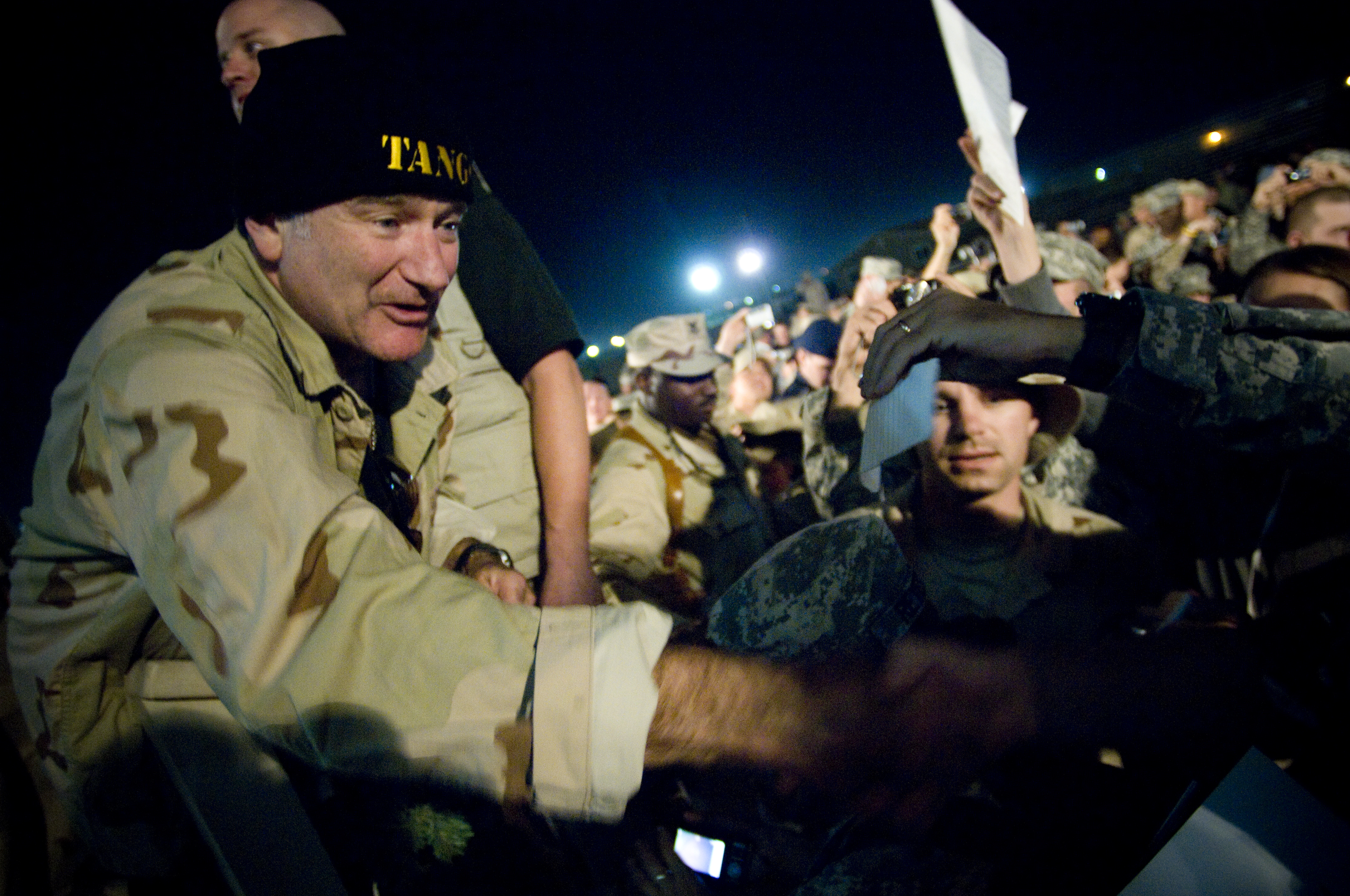 Comedian Robin Williams signs autographs at Camp Arifjan, Kuwait, Dec. 17, 2007, during the second stop of the 2007 USO Holiday Tour. Tour host Chairman of the Joint Chiefs of Staff U.S. Navy Adm. Mike Mullen was joined by award winning recording artist Kid Rock, Miss USA Rachel Smith, comedian Lewis Black and seven-time Tour de France champion Lance Armstrong on the 15-stop, seven-country tour thanking the forward deployed troops for their sacrifice and service.